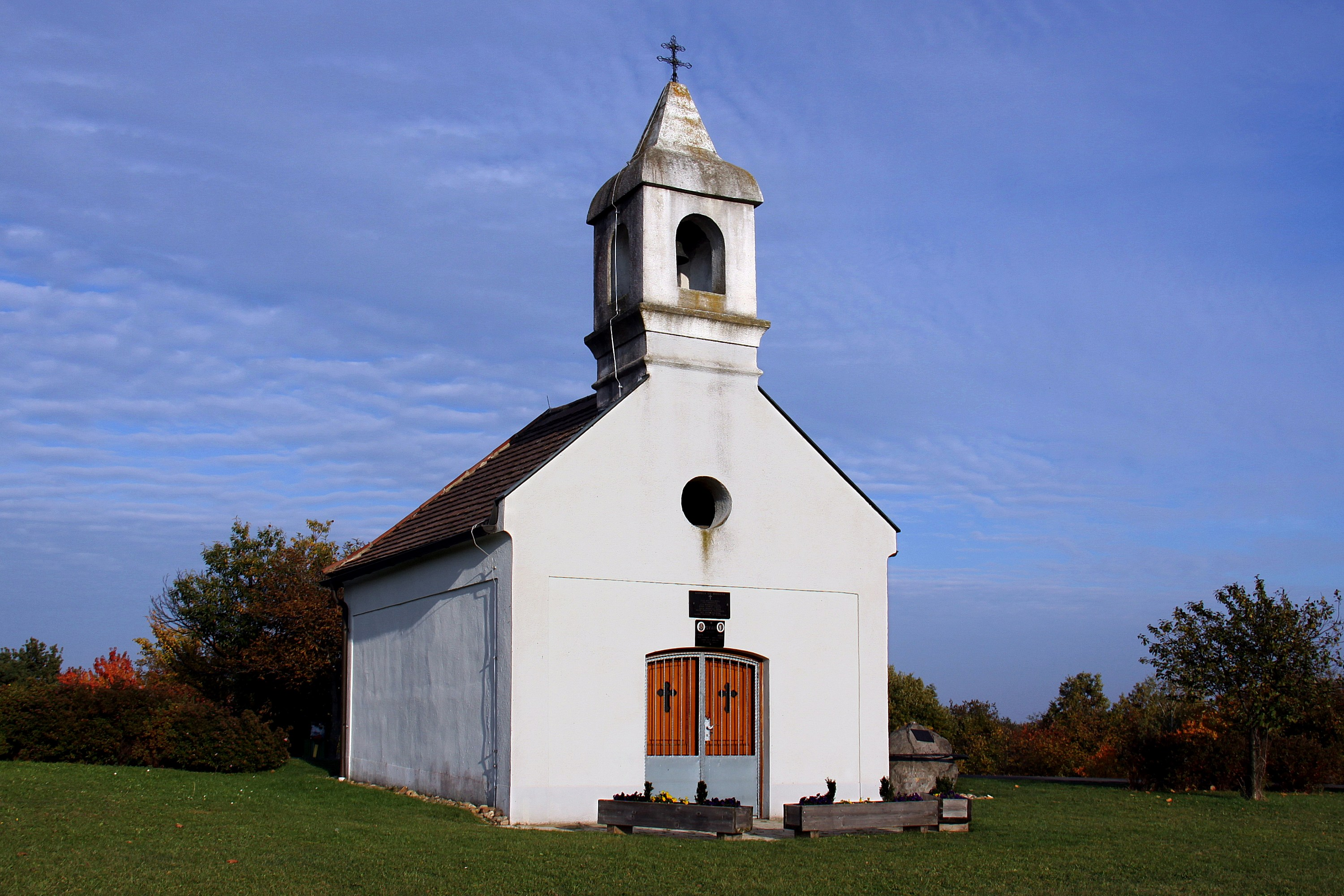 Frankenau-Unterpullendorf - Unterpullendorf, Donatuskapelle